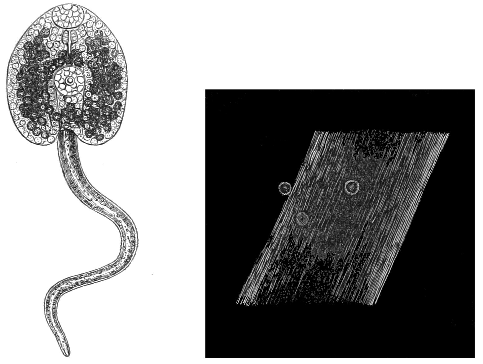 Free cercaria in water and cysts attached to the grass